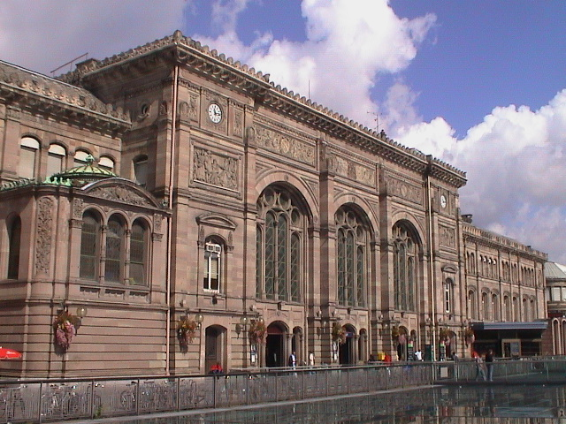 Railway station in Strasbourg, France